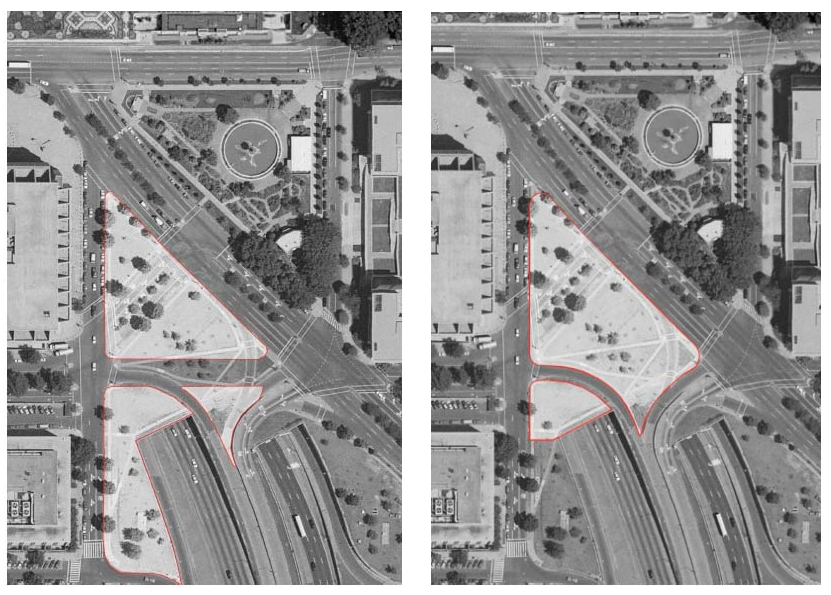 Side-by-side comparison of the site for the American Veterans Disabled for Life Memorial in Washington, D.C., in the United States. The original site approved for the memorial in August 2001 is on the left, and consists of three parcels. The enactment into law of Federal and District of Columbia Government Real Property Act of 2006 (Public Law 109–396) on December 15, 2006, barred the east-west realignment of C Street SW due to security concerns. Although a the site gained some additional land, unifying the parcels, it lost most of the southern portion of the alloted site to the Architect of the Capitol. The site as revised by P.L. 109-396 is on the right.